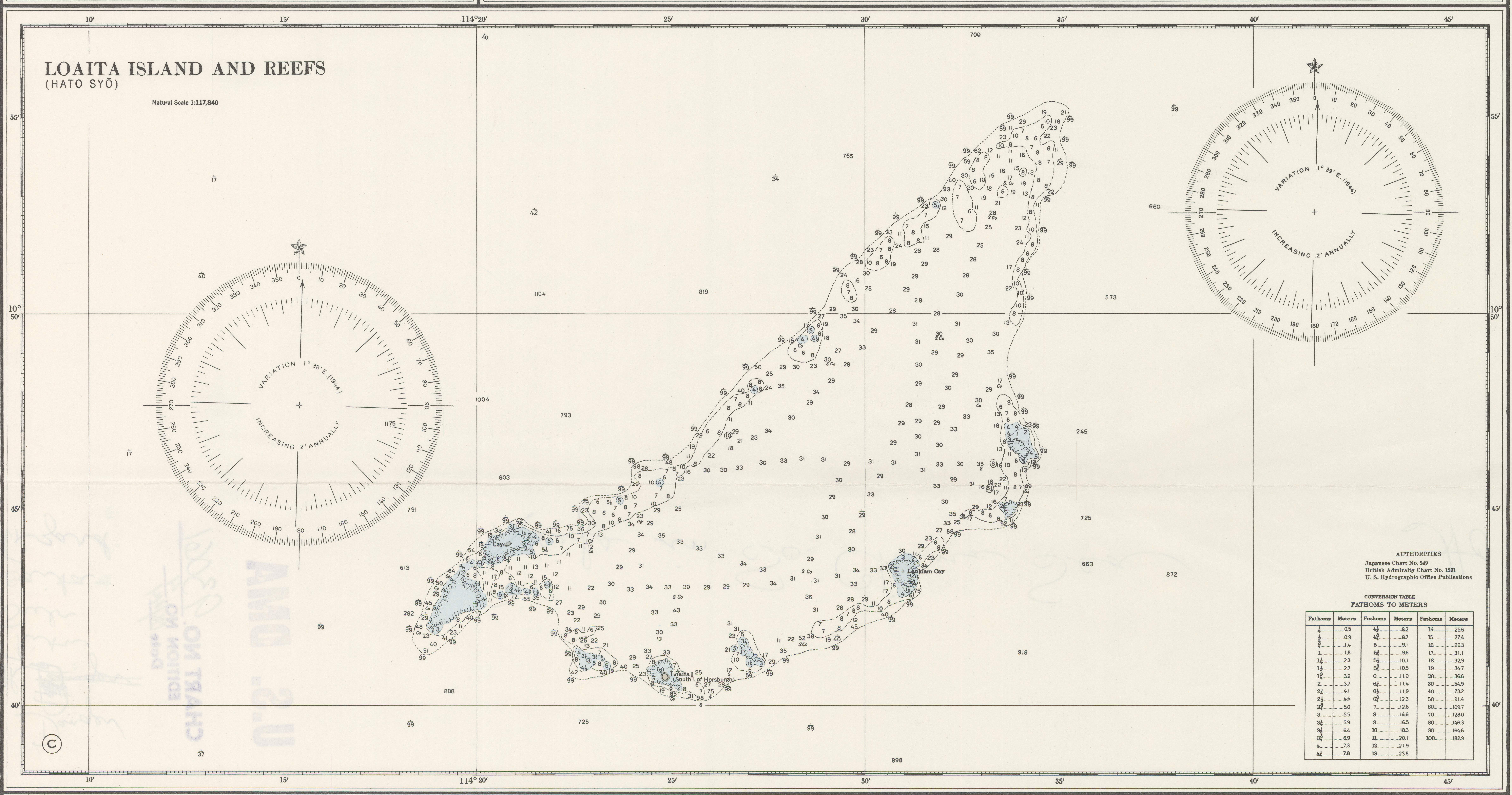 Nautical chart of islands, atolls, and reefs in the South China Sea: North Danger (atoll), Thitu Islands and Reefs (atoll, reef) and Subi Reef, Loita Island and Reefs (atoll), Tizard Bank (atoll)